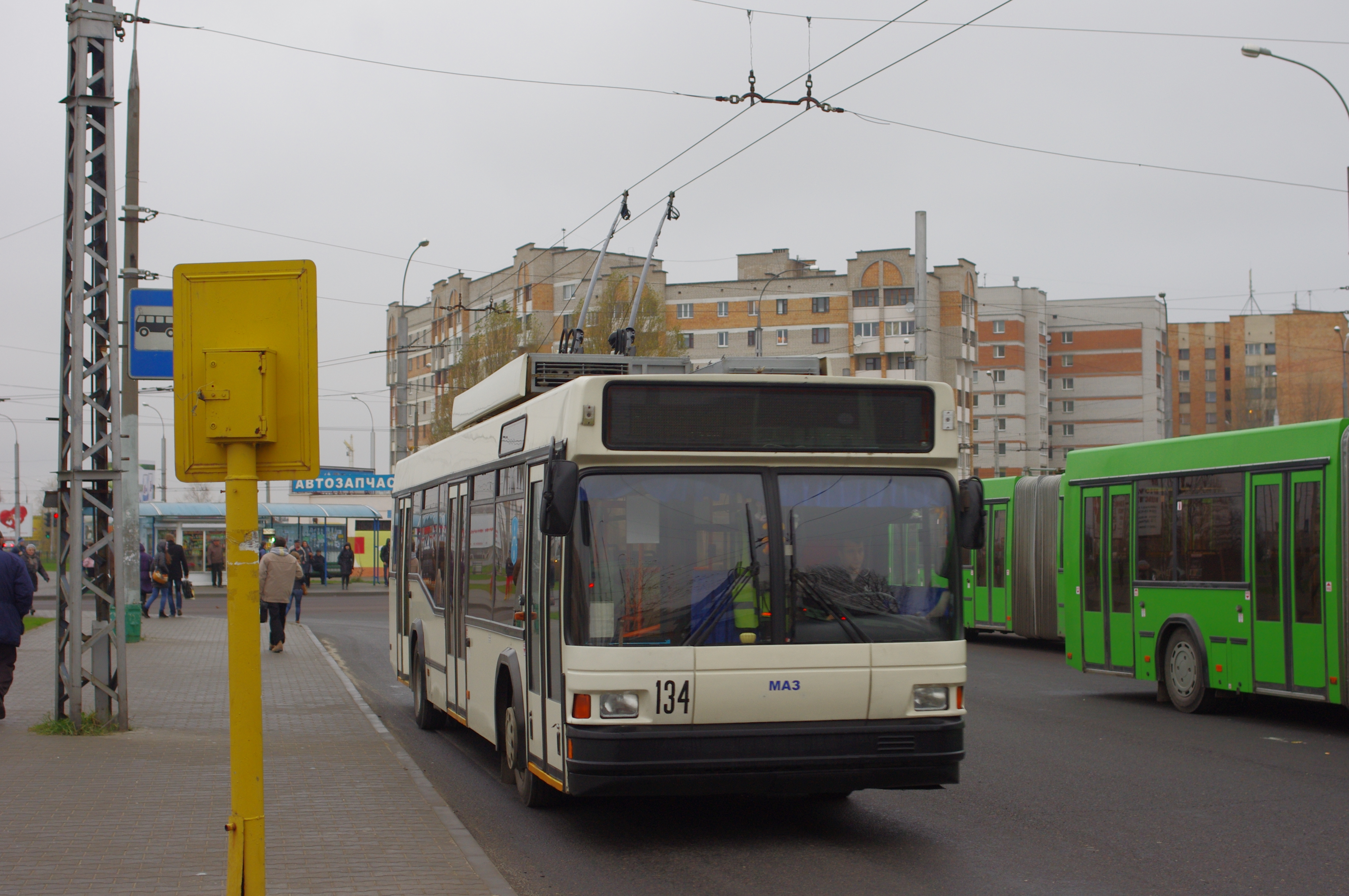 Brest trolleybus 134 20131117_008